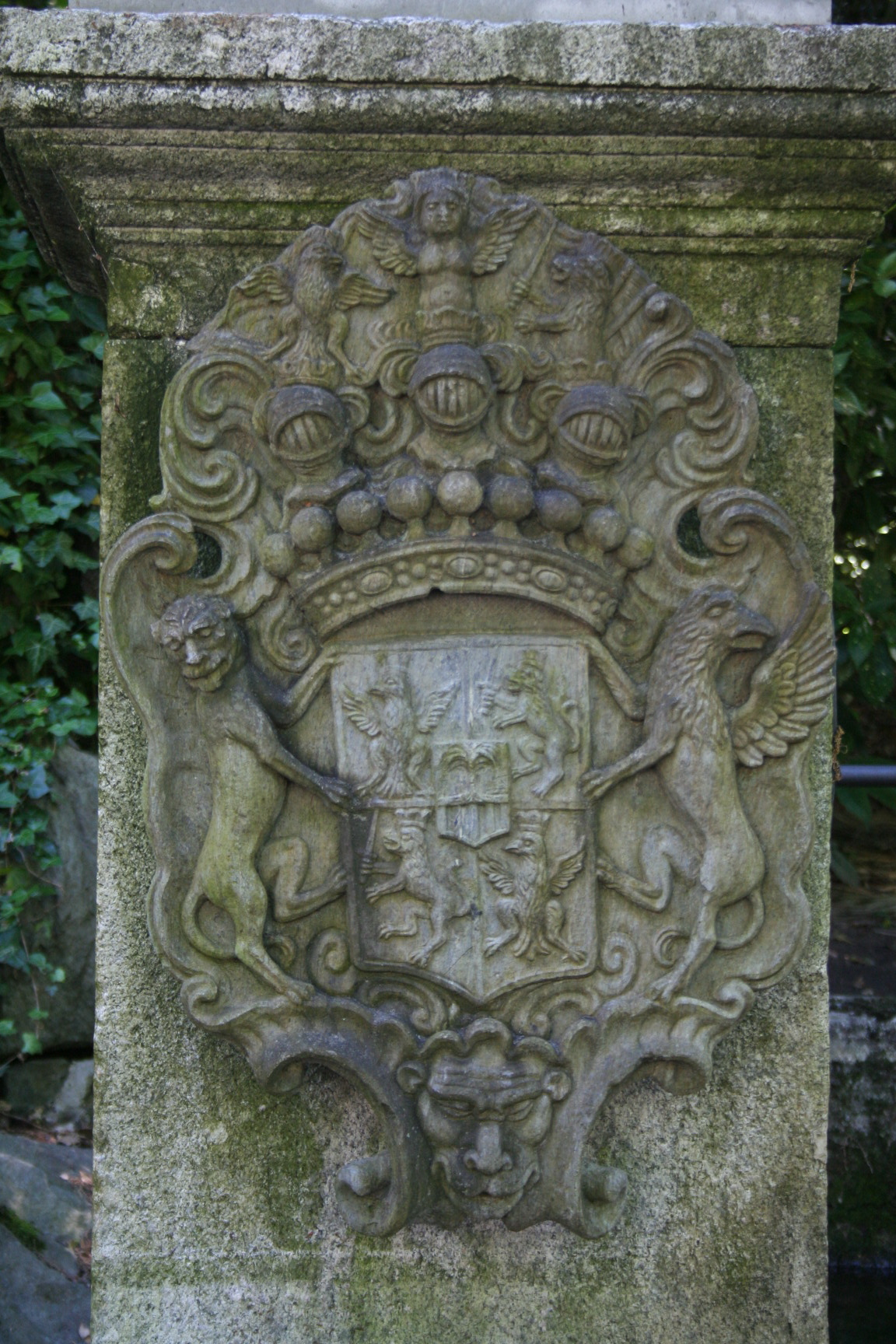 digital photo (R. de Salis, June 2009) of shield, supporters & crests of Peter (third) Count de Salis from the 1781 statue dismembered c1799, as seen June 2009.Rodolph (talk) 23:10, 14 December 2009 (UTC)